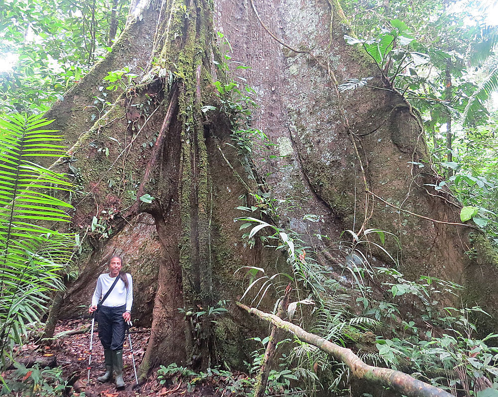 The huge buttresses of a giant Kapok tree in Sacha Reserve, eastern Ecuador.